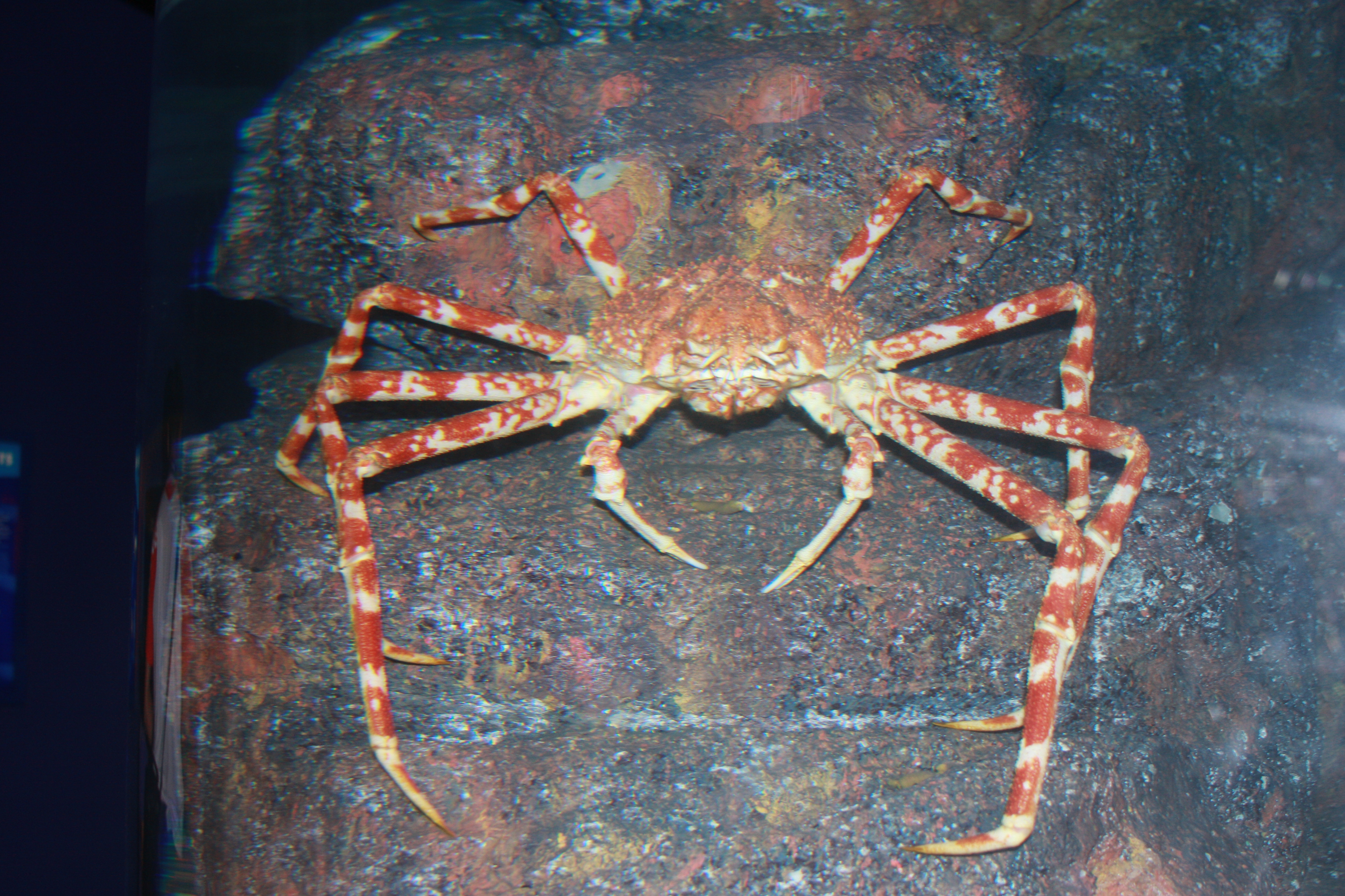 Macrocheira kaempferi, photo taken in a Bangkok aquarium